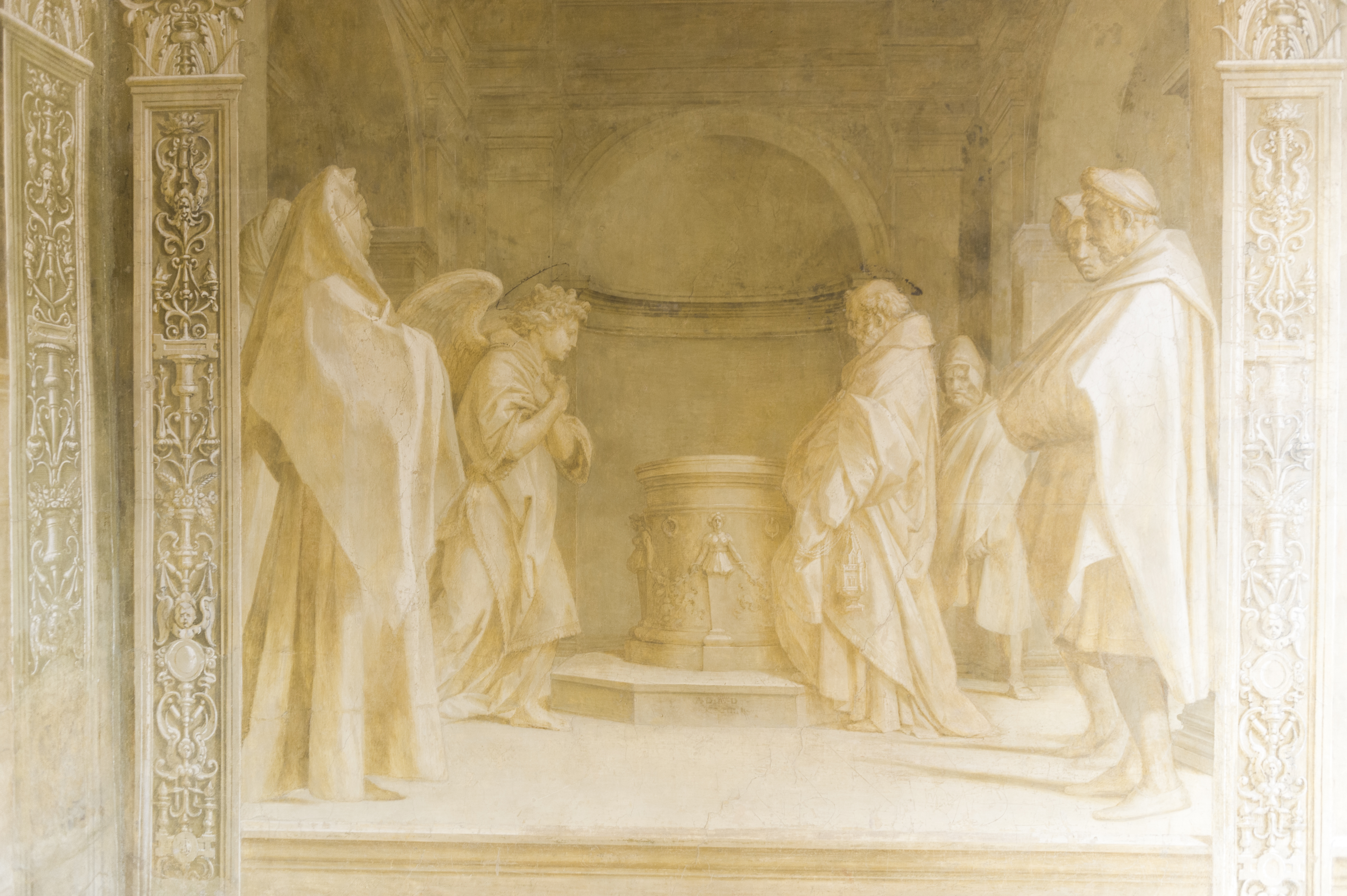 "Annunciation to Zachary" by Andrea del Sarto